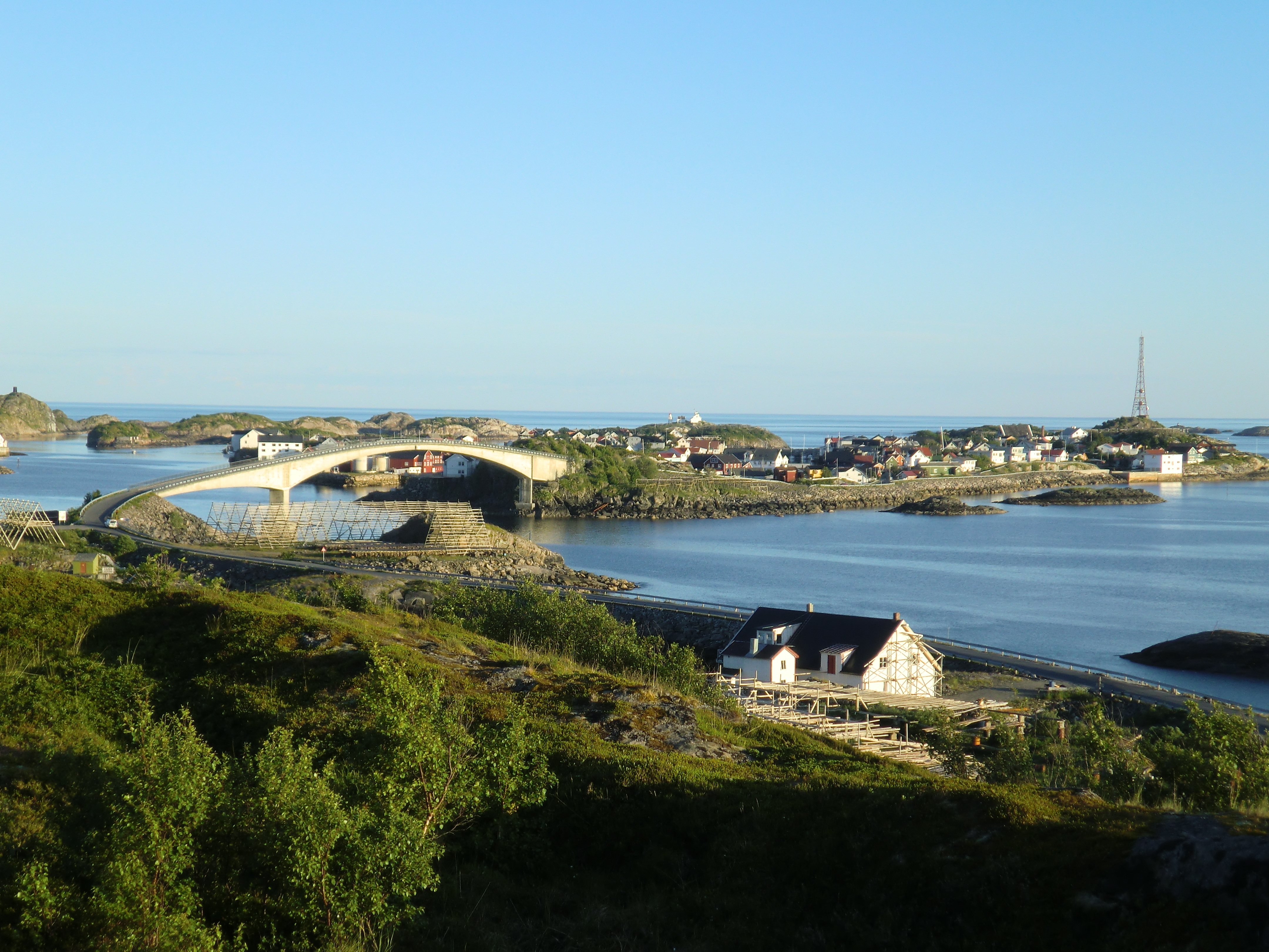 Towards Henningsvær, Lofoten islands, Norway